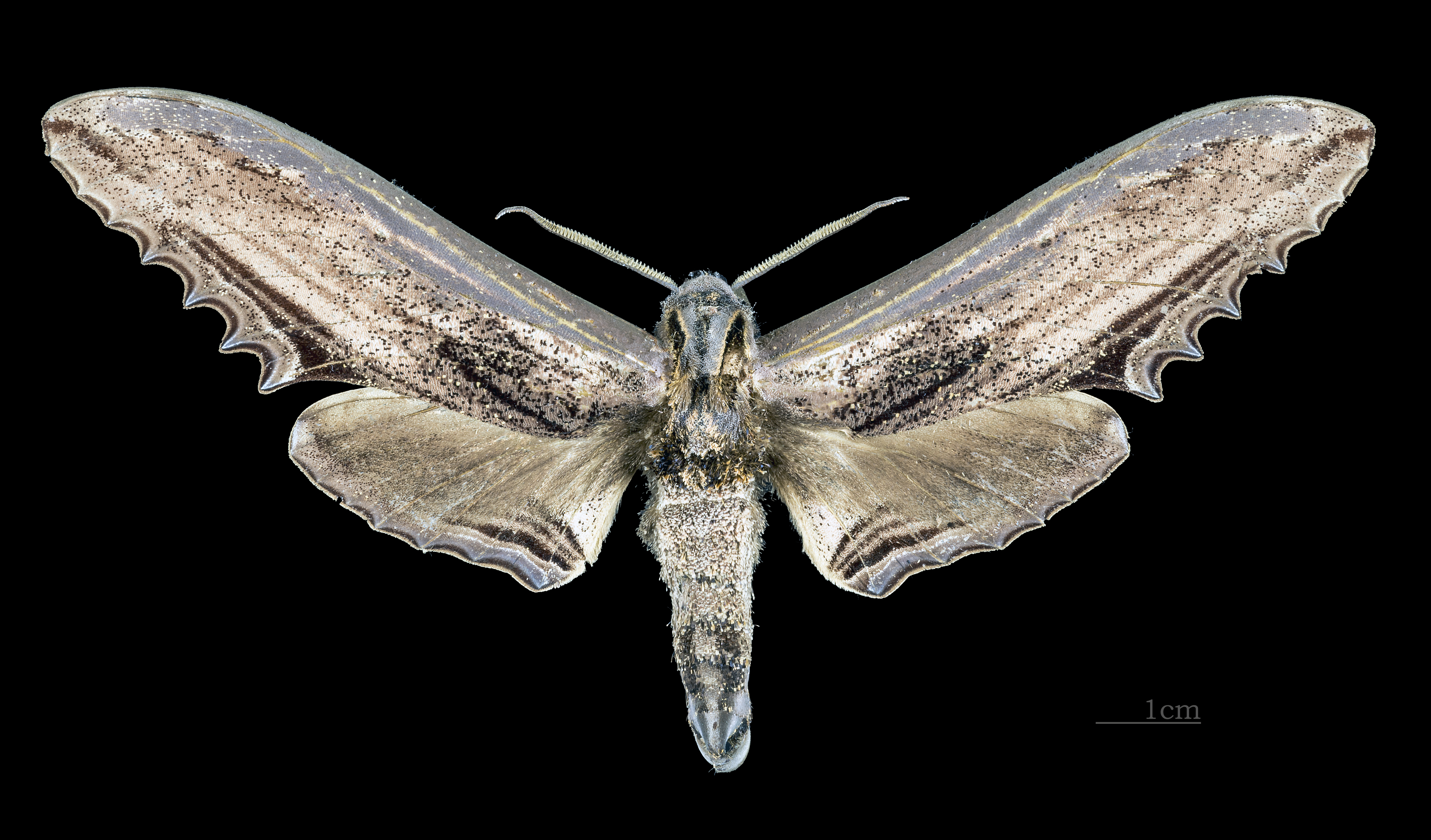 Langia zenzeroides - Dorsal side Collection of the Mathematician Laurent Schwartz